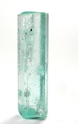 Beryl, Beryl (Var.: Aquamarine) Locality: Teófilo Otoni, Mucuri valley, Minas Gerais, Southeast Region, Brazil (Locality at ) Gorgeous glowing crystal of Aquamarine ex. Dr. Steve Smale, acquired from Rob Lavinsky last year (8.2 x 2.3 x 1.5 cm)